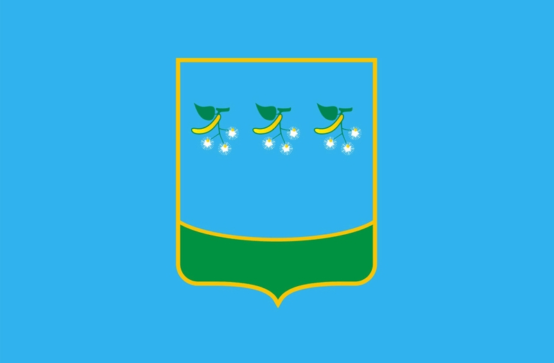 Flag of Lipovodolinskij district (Ukraine)